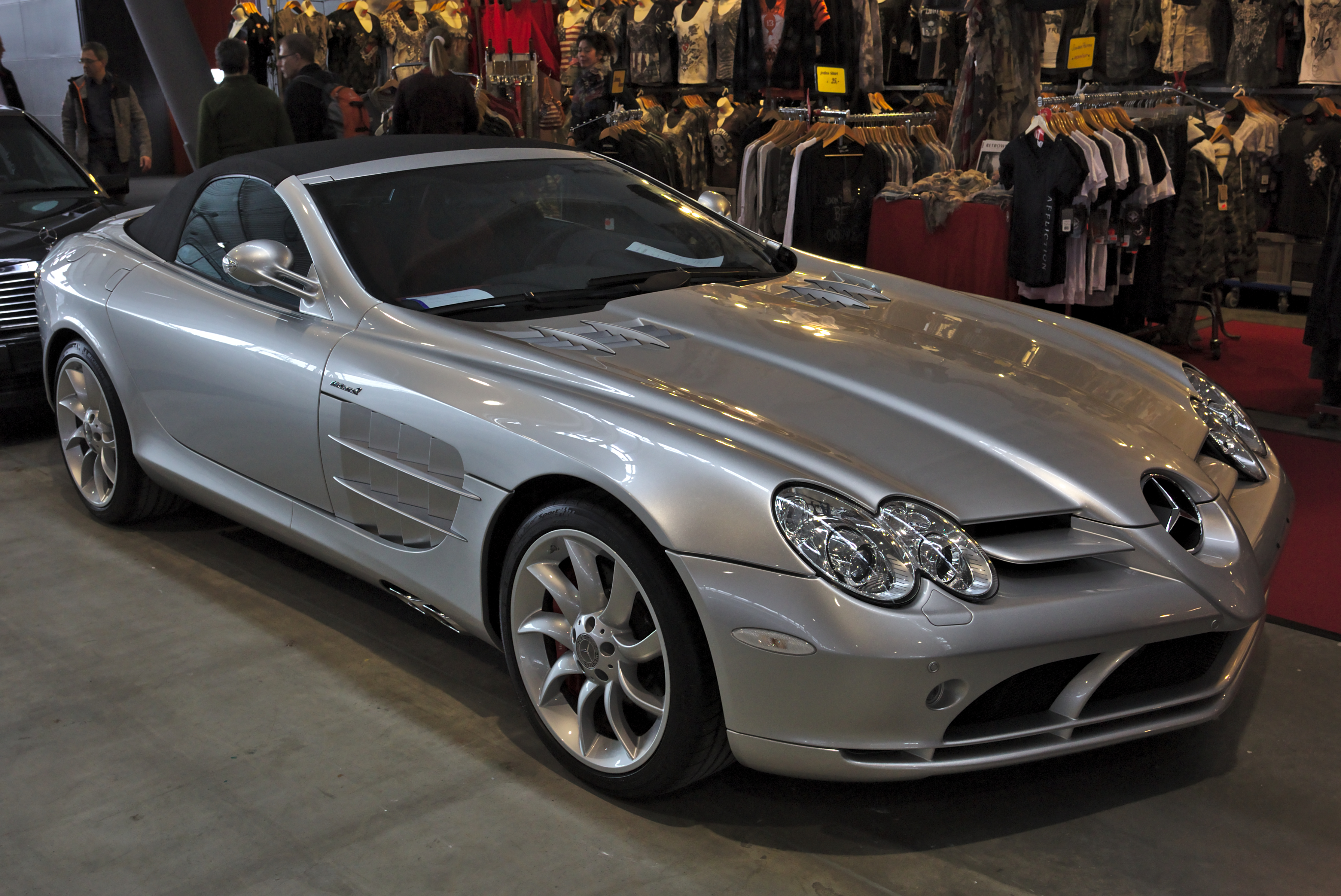 Mercedes-Benz SLR McLaren Roadster at Retro Classics 2018